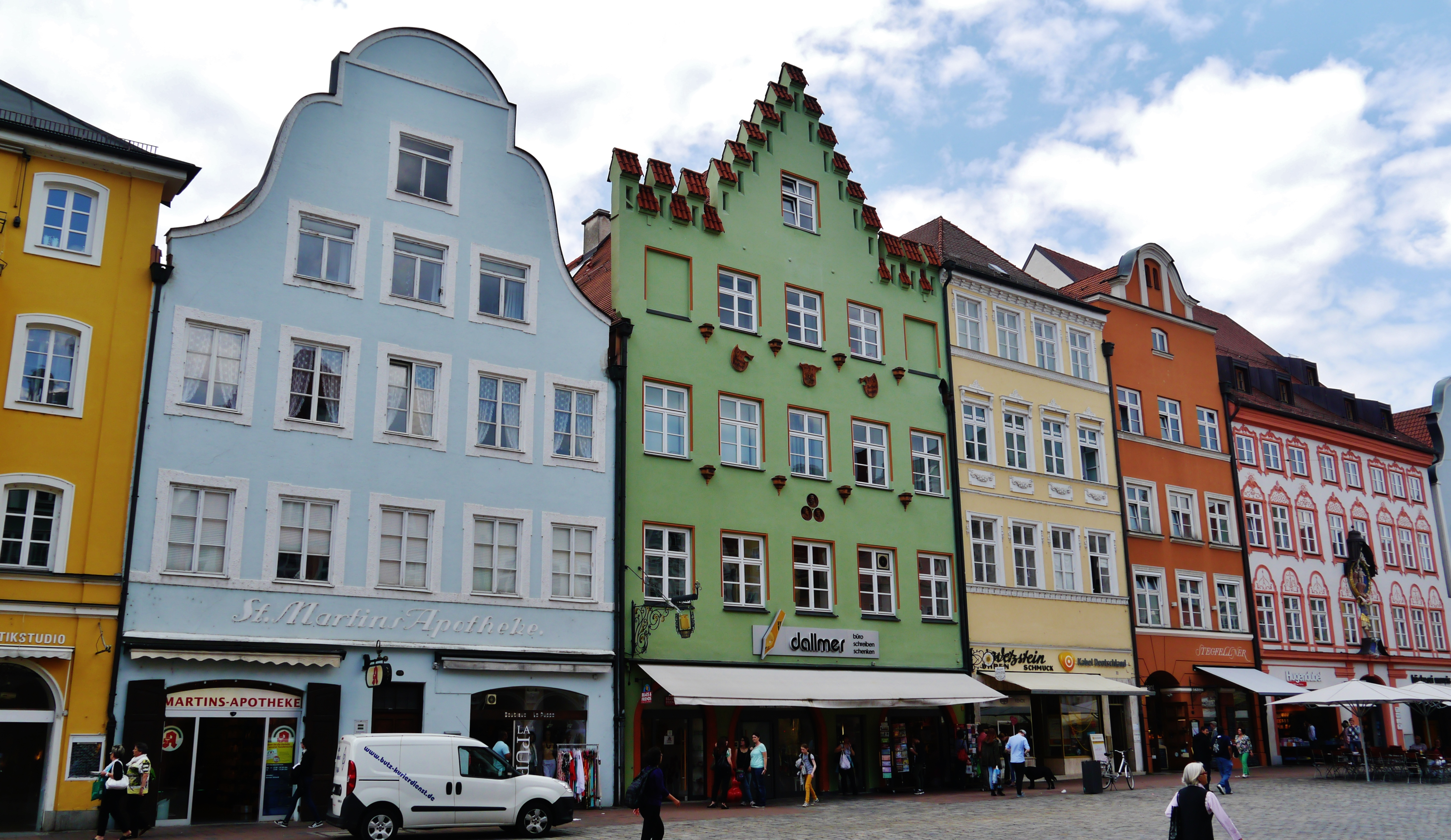 Old Town (Street) of Landshut, Bavaria, Germany